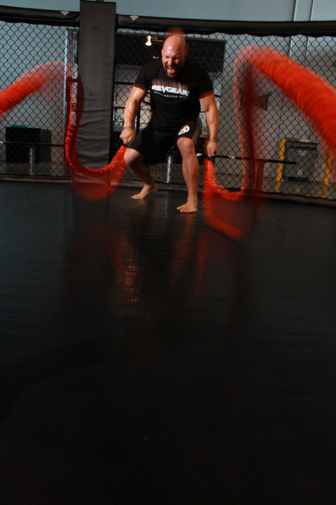 Unlike traditional (non-elastic) heavy ropes, the Beast is engineered to apply graduated resistance to counter the force of the athlete’s movements, which causes the muscles throughout the entire body to contract. Beyond functioning as a high-powered battle rope, the Beast has multiple applications—rotational movement training (which targets the core muscles) and lateral movement training (which targets core stability), to reverse walking (for lower-body strength) and building cardiovascular endurance. Because of its large circumference, a fighter’s grip strength is increased every time he trains with the Beast. Weighing up to 15 pounds and providing a full 150 pounds of resistance with each rope, the Beast is encased in a protective nylon sheath, giving athletes of any fitness level a physically taxing and safe workout. stroo.ps/beast